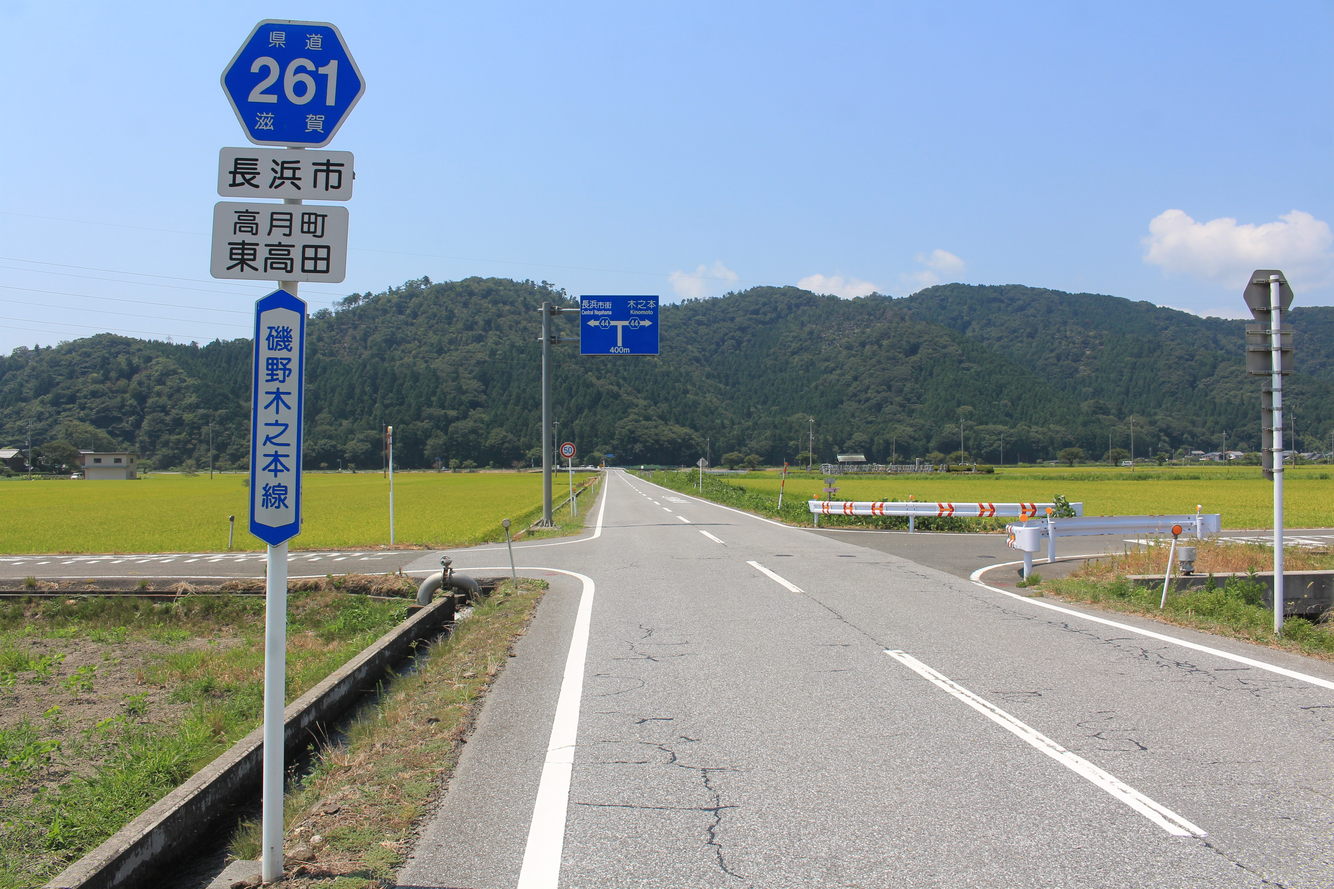 Shiga Prefectural Road Route 261 in Higashitakata, Takatsuki-cho, Nagahama, Shiga prefecture, Japan.